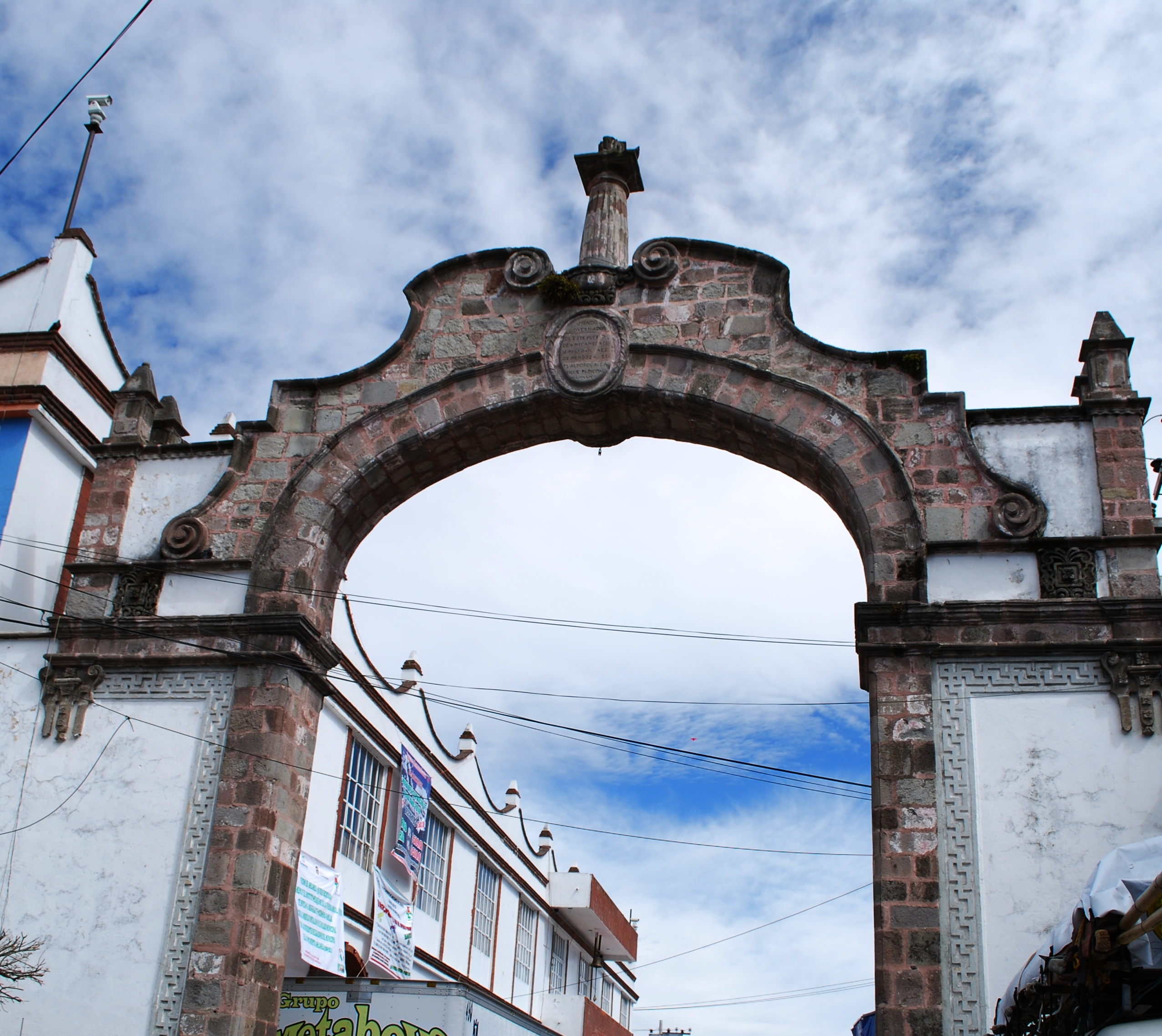 Arch into the old town of Amecameca, Mexico State